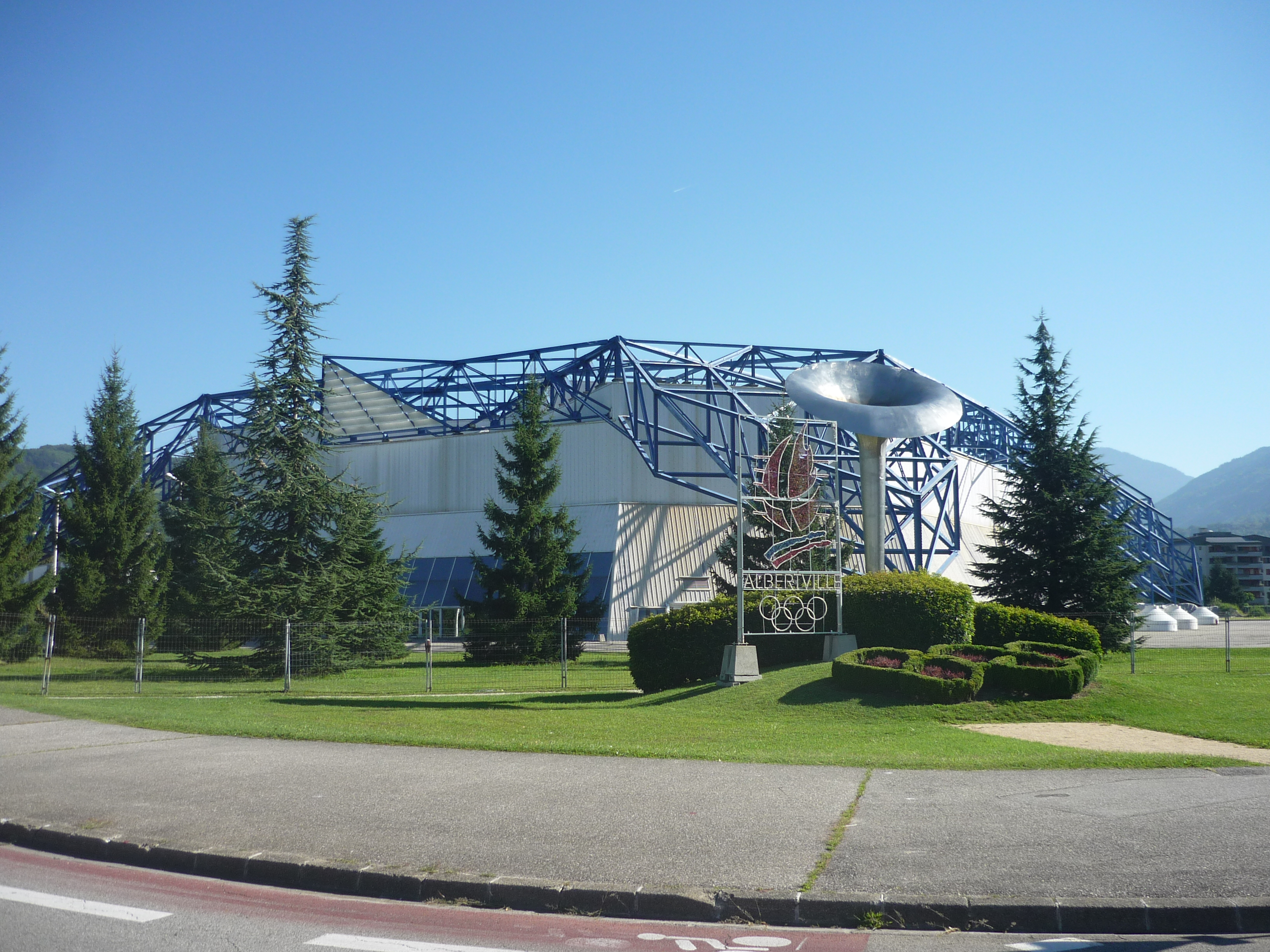 The Halle olympique and the olympic flamme cauldron of the 1992 Winter Olympics, Albertville, Savoie, France